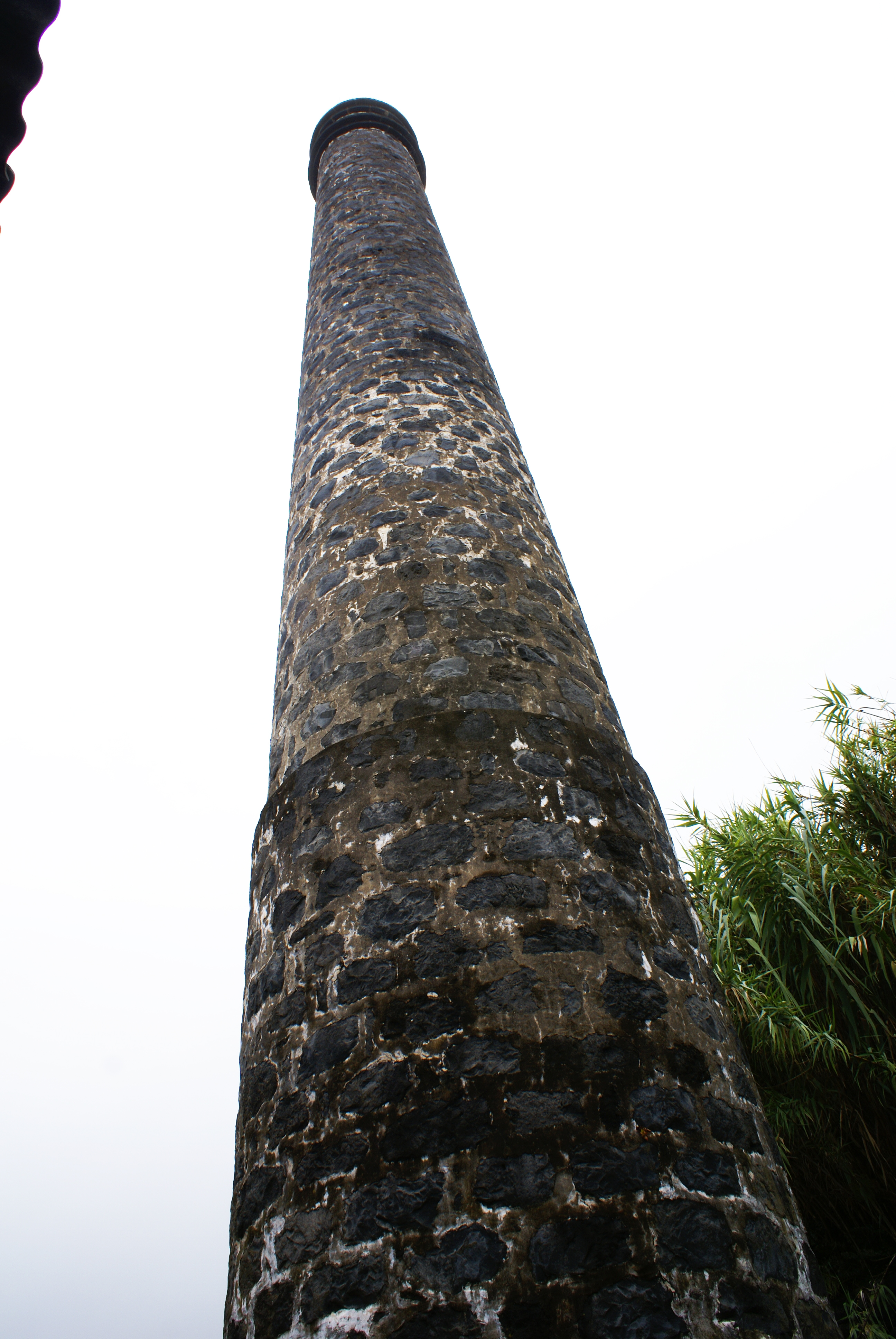 Centro de Artes e Ciências do Mar, Museu da Baleia, chaminé da Fabrica de óleos de baleia, concelho das Lajes do Pico, ilha do Pico, Açores, Portugal